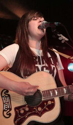 Picture of Amy MacDonald.